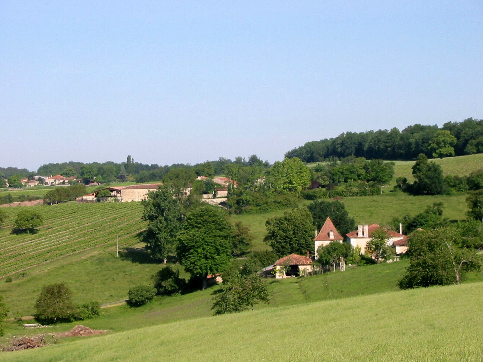 landscape of Montmorélien, Charente, SW France